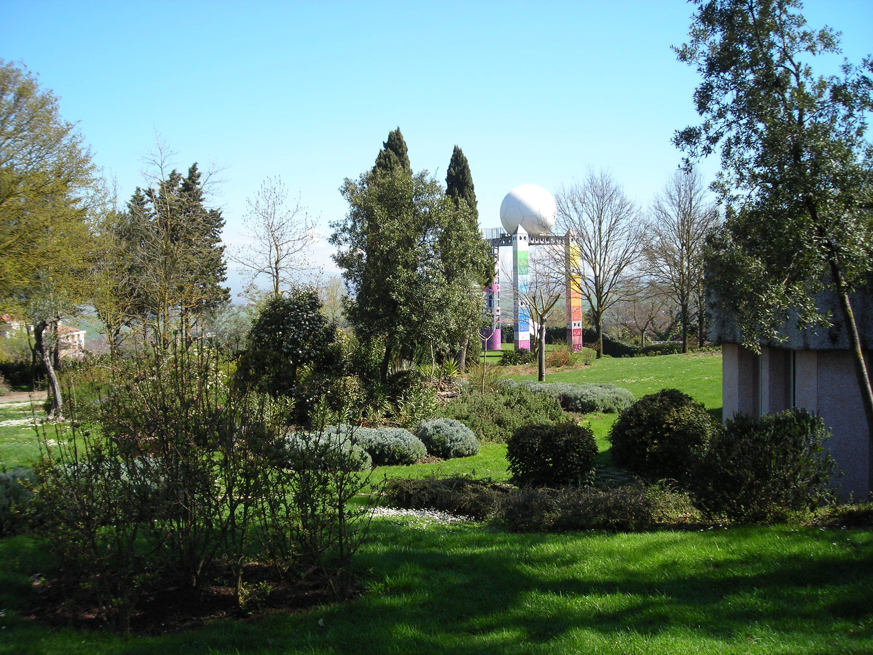 The garden of the Popes' Villa with the antenna of the MARSec, Benevento